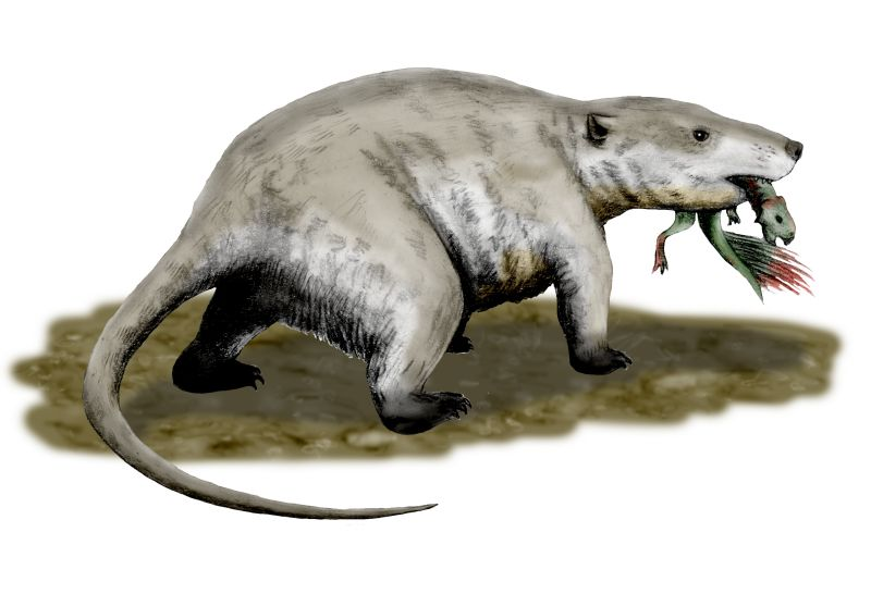 Repenomamus giganticus, a triconodont from the Early Cretaceous of China, pencil drawing, digital coloring